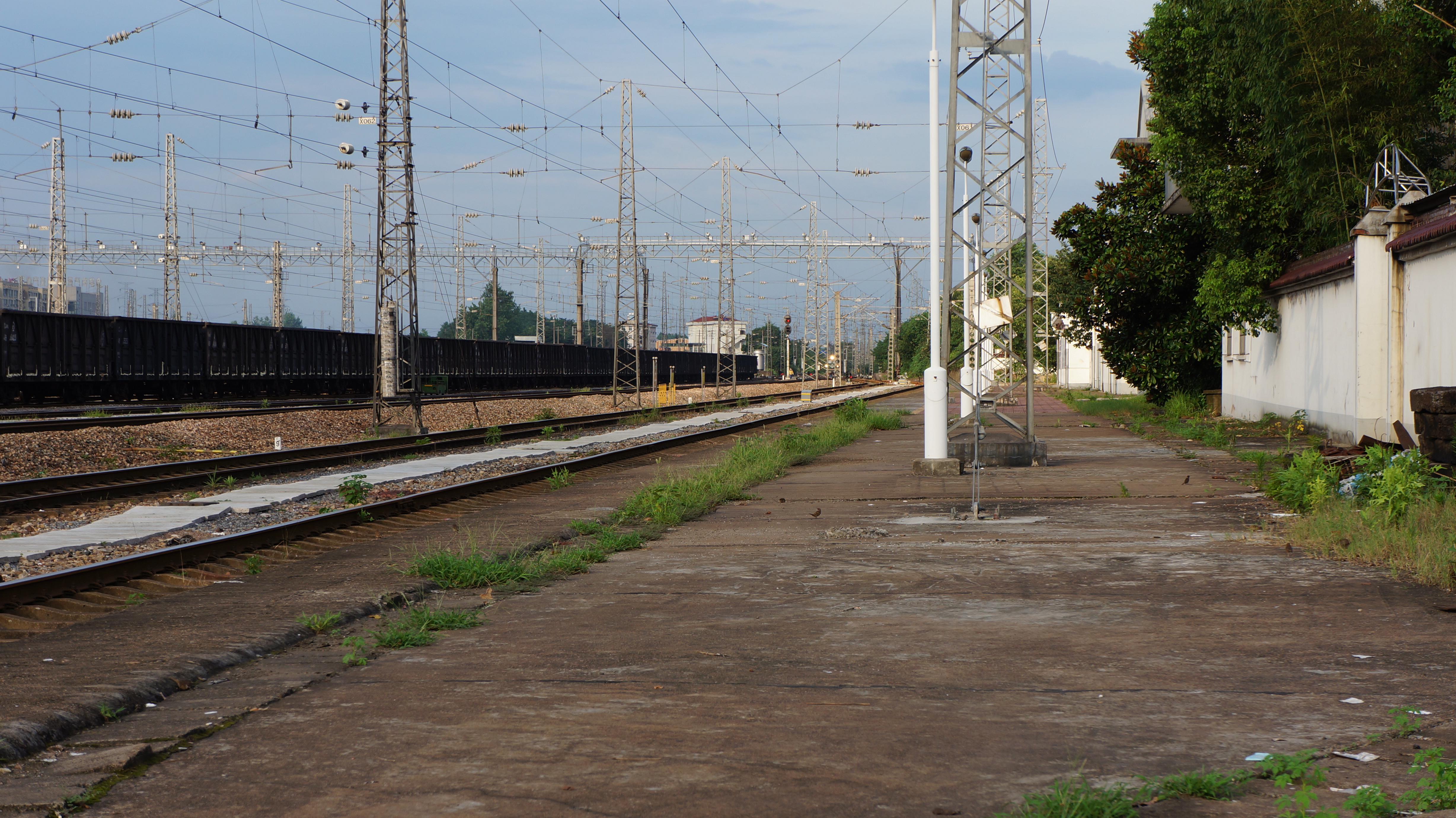 The platform of Jinhuadong Railway Station